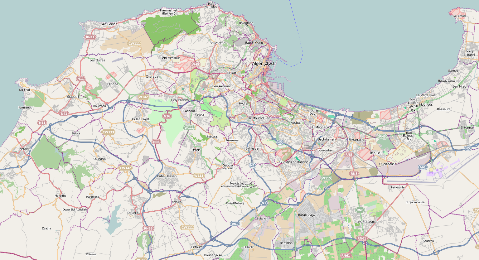 Map of Algiers, Algeria Geographic limits of the map: N: 36.8209° S: 36.6359° W: 2.8243° E: 3.2493°